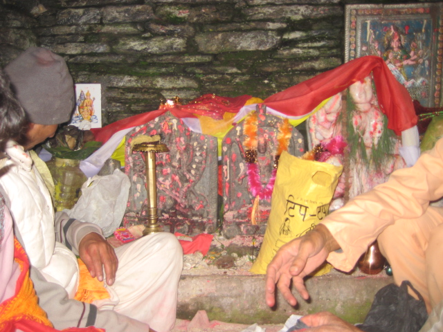 बडिमालिका मन्दिरमा रहेको मुर्ति